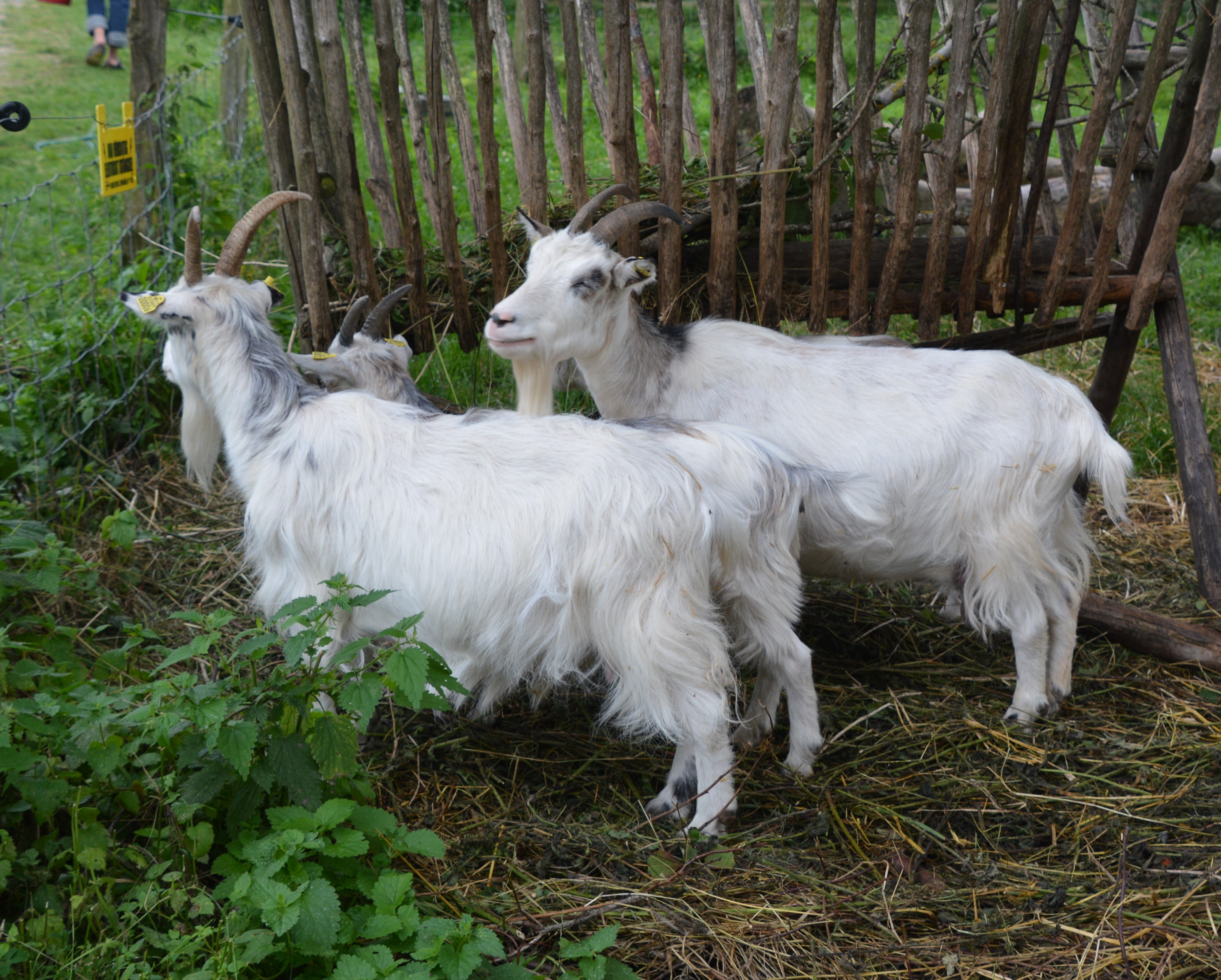 Göingeget